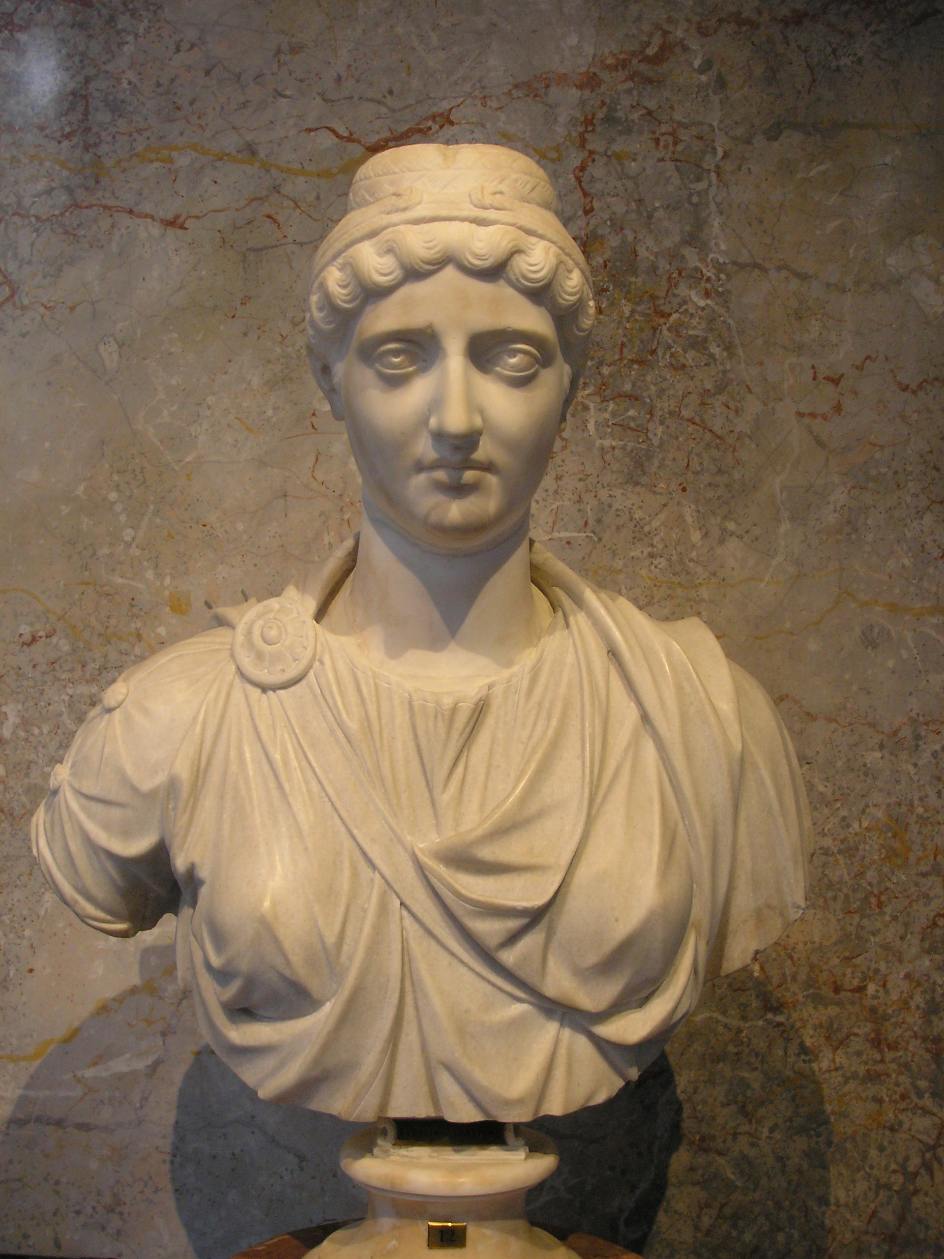 Ancient Roman bust of Faustina the Elder, in the Collection of Greek and Roman Antiquities in the Kunsthistorisches Museum, Vienna.